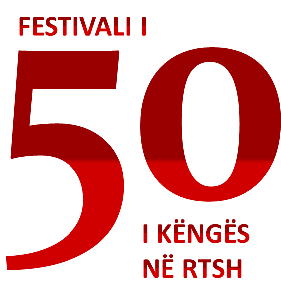 This is a remake logo of Festivali i Këngës 50.